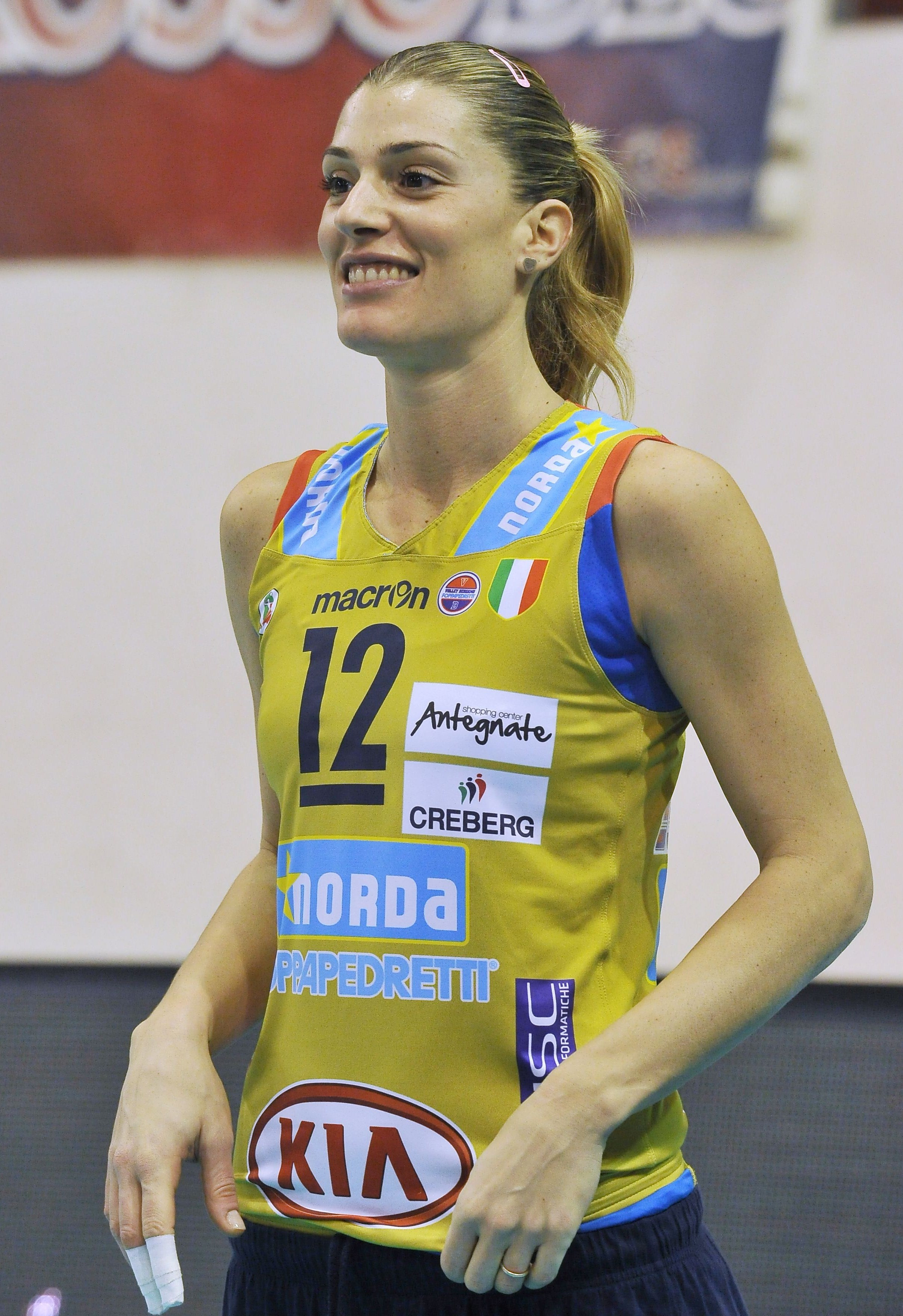 Italian volleyball player Francesca Piccinini.